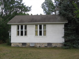 The historic schoolhouse in Yuba, Michigan.